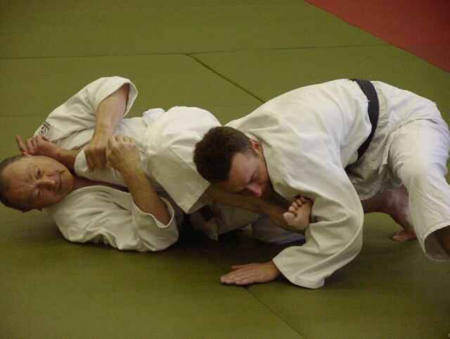 Vladimir Lorenz (8.dan judo) - legend of czechoslovak judo